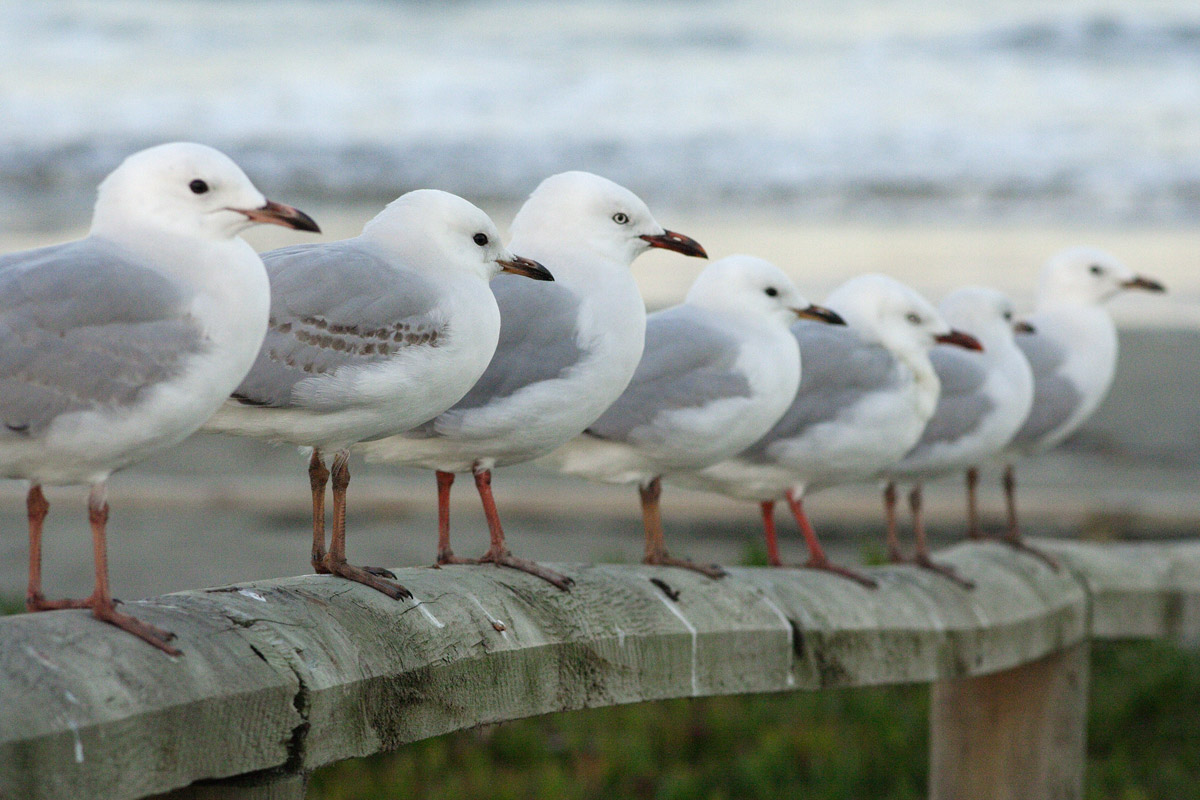 Red-billed Gulls Chroicocephalus novaehollandiae scopulinus. Brighton Beach, New Zealand.